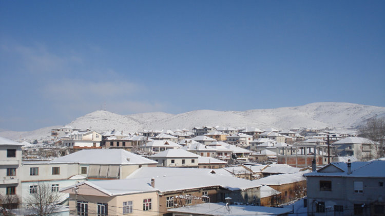 Bilisht in snow